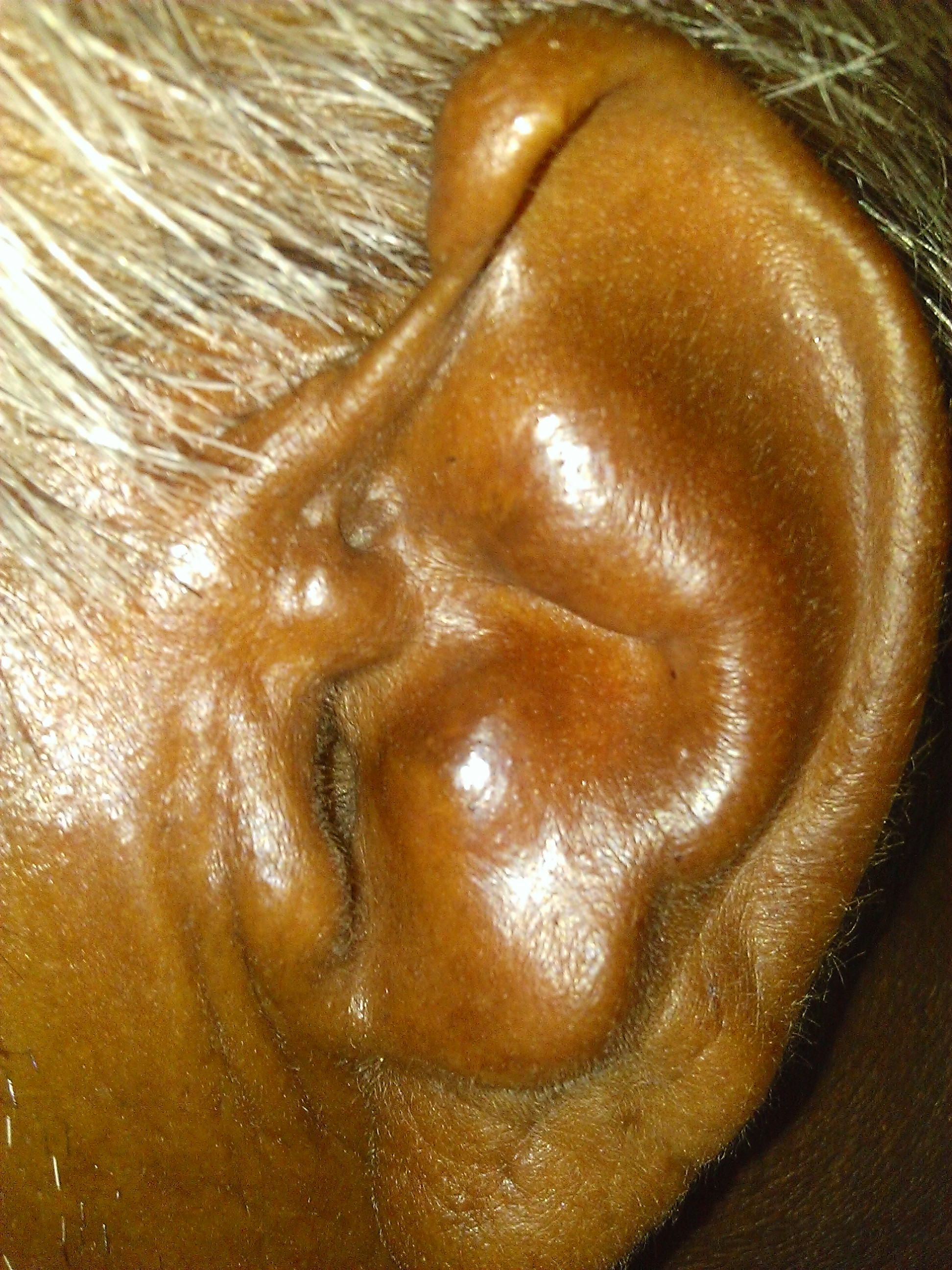 A photograph of cauliflower ear